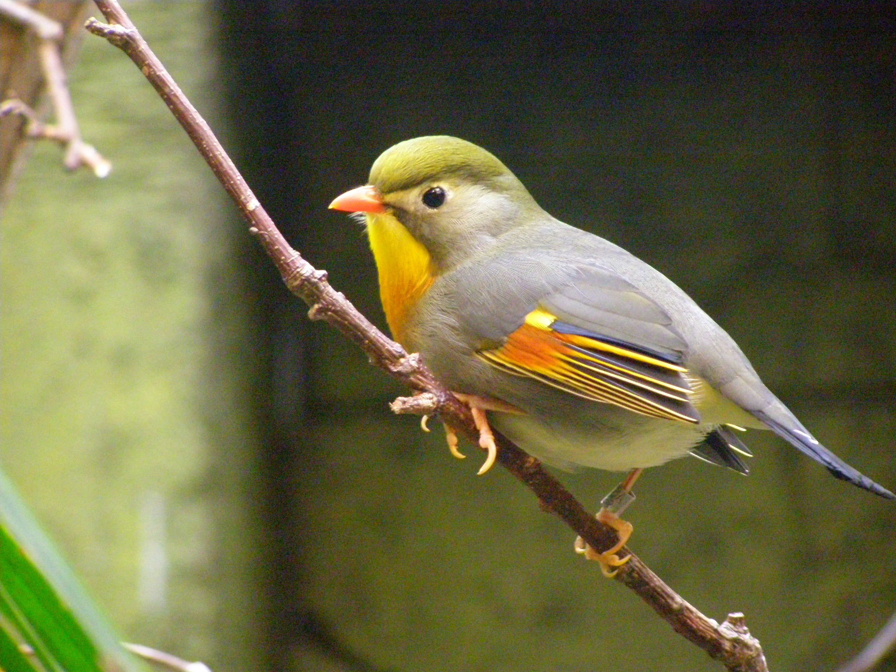 Red-billed Leiothrix (Leiothrix lutea)